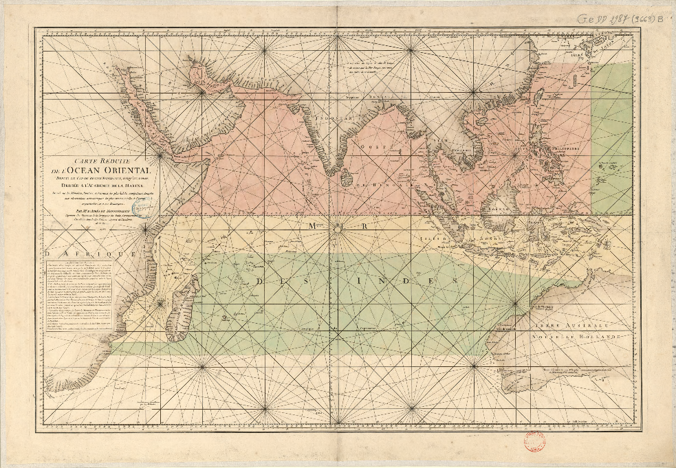 "Map of Eastern Ocean from the Cape of Good Hope to Japan" from french cartographer Jean-Baptiste d'Après de Mannevillette (1707-1780)